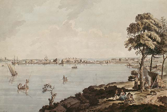 A View of Cataraqui (Kingston). Watercolour, pen and ink and pencil on paper.